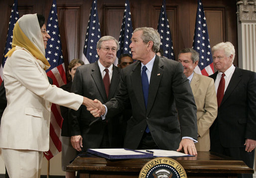 President George W. Bush shakes the hand of Ambassador Hunaina bint Sultan Al-Mughairy, of the Sultanate Oman to the United States, after signing H.R. 5684, the United States-Oman Free Trade Agreement Implementation Act Tuesday, Sept. 26, 2006, in the Dwight D. Eisenhower Executive Office Building. White House photo by Kimberlee Hewitt